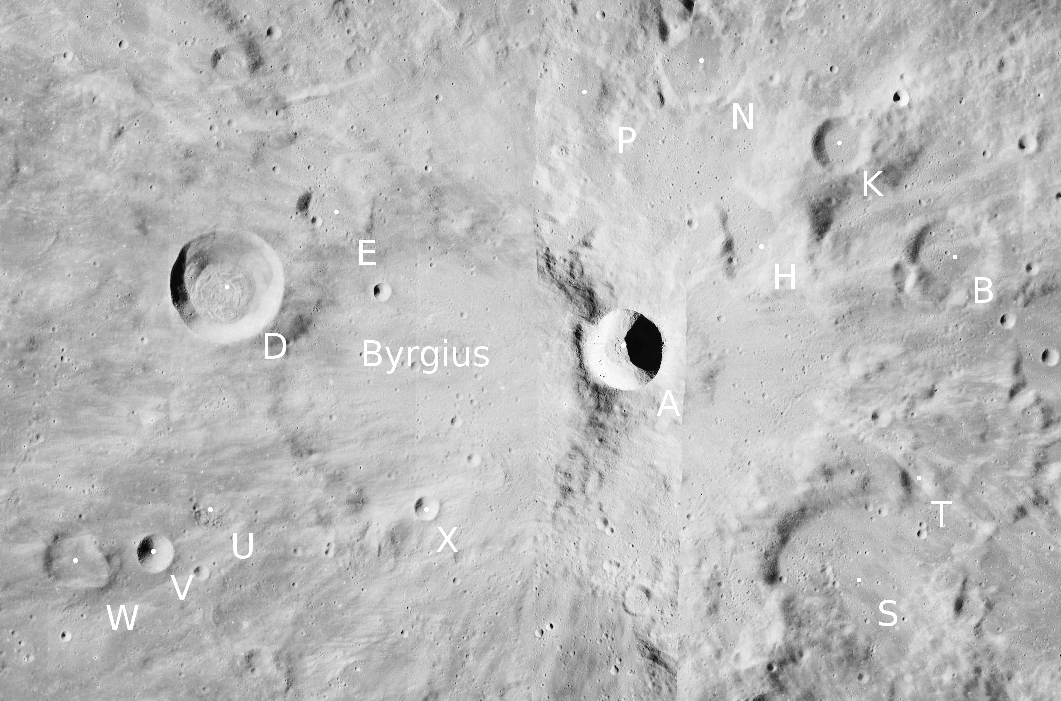 Crater Byrgius with satellite features (detail of LRO - WAC global moon mosaic; Mercator projection)